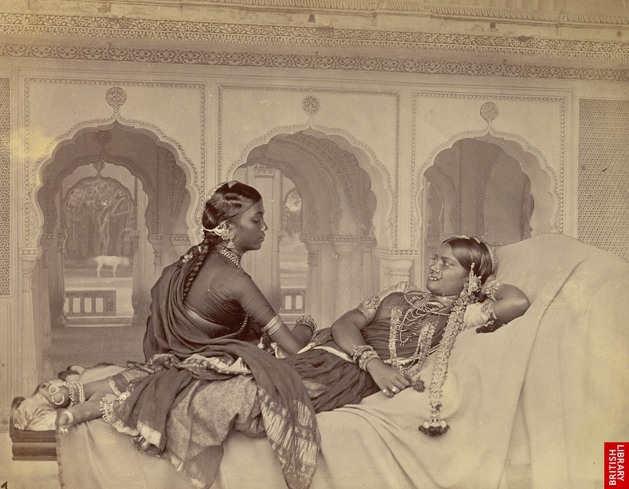 Nautch girls, Hyderabad; a photo by Hooper and Western, 1860's* (BL); [*Hooper 1860's*]